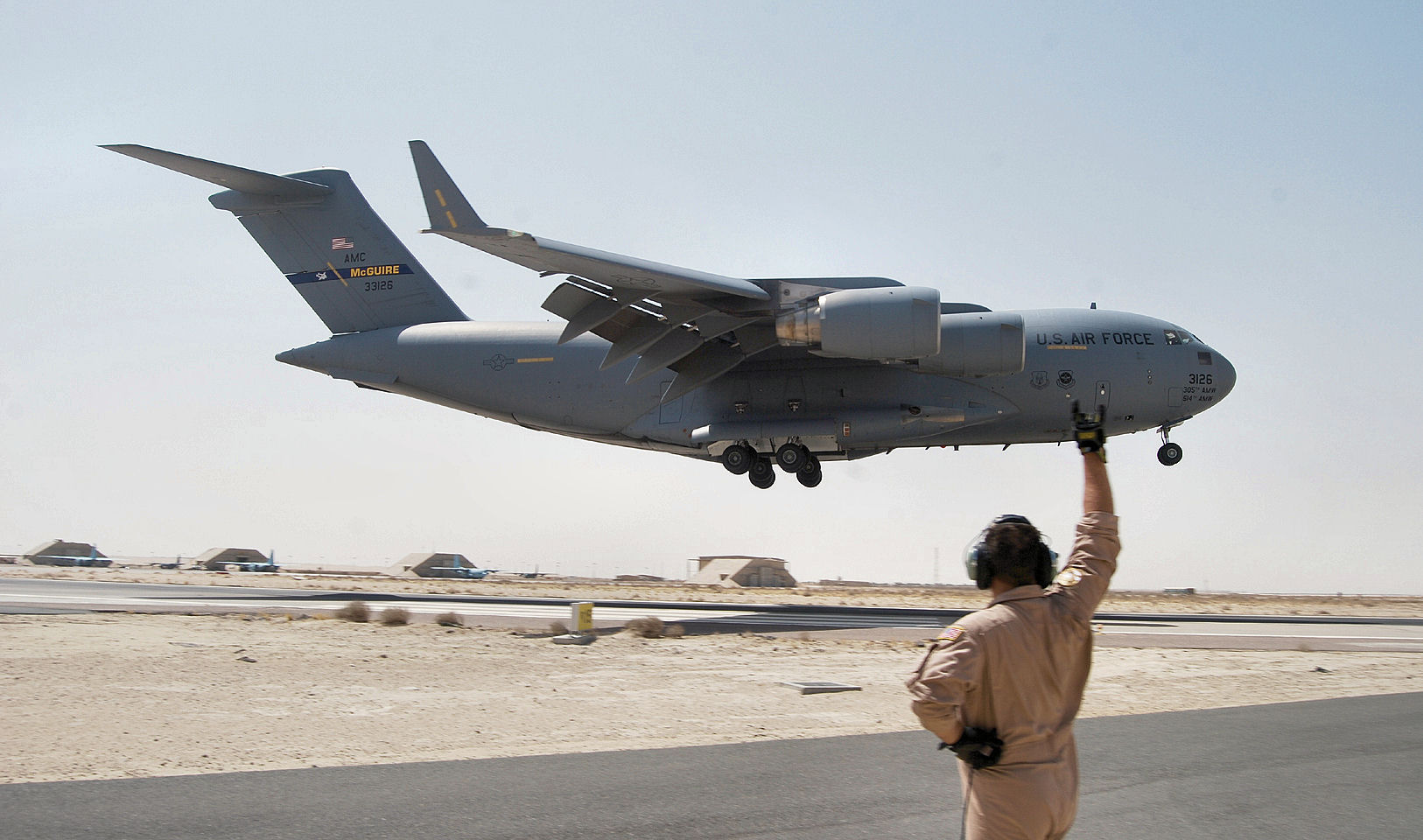 Staff Sgt. Cory Rich, deployed with the 6th Airlift Squadron from McGuire AFB, N.J., greets a McGuire C-17 as it lands at a base in the AOR. The squadron recently delivered its 100,000th ton of cargo and 100,000th servicemember to the AOR after just 90 days of being deployed as the 816th Expeditionary Airlift Squadron. (U.S. Air Force photo/1st Lt. Michael Motschman)